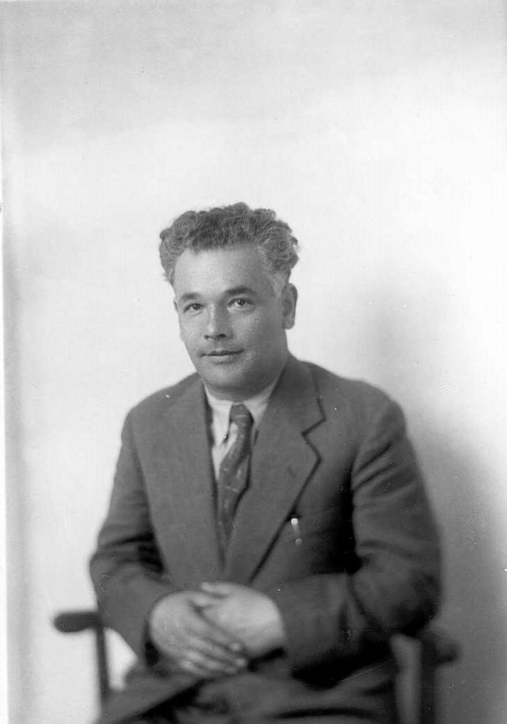 Shlomo Zemach, Hebrew writer, educator and pioneer.